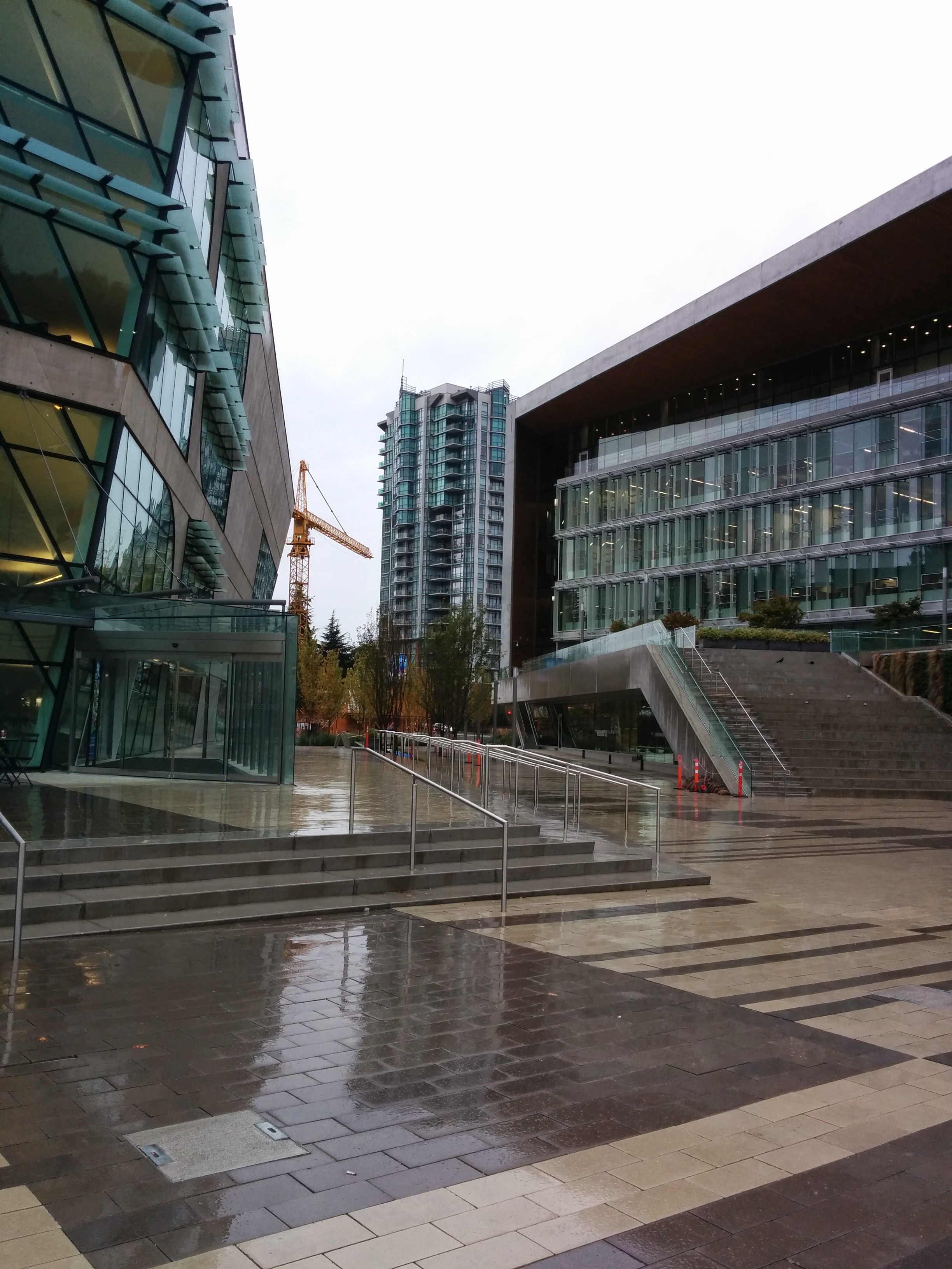 Surrey Center library and city hall